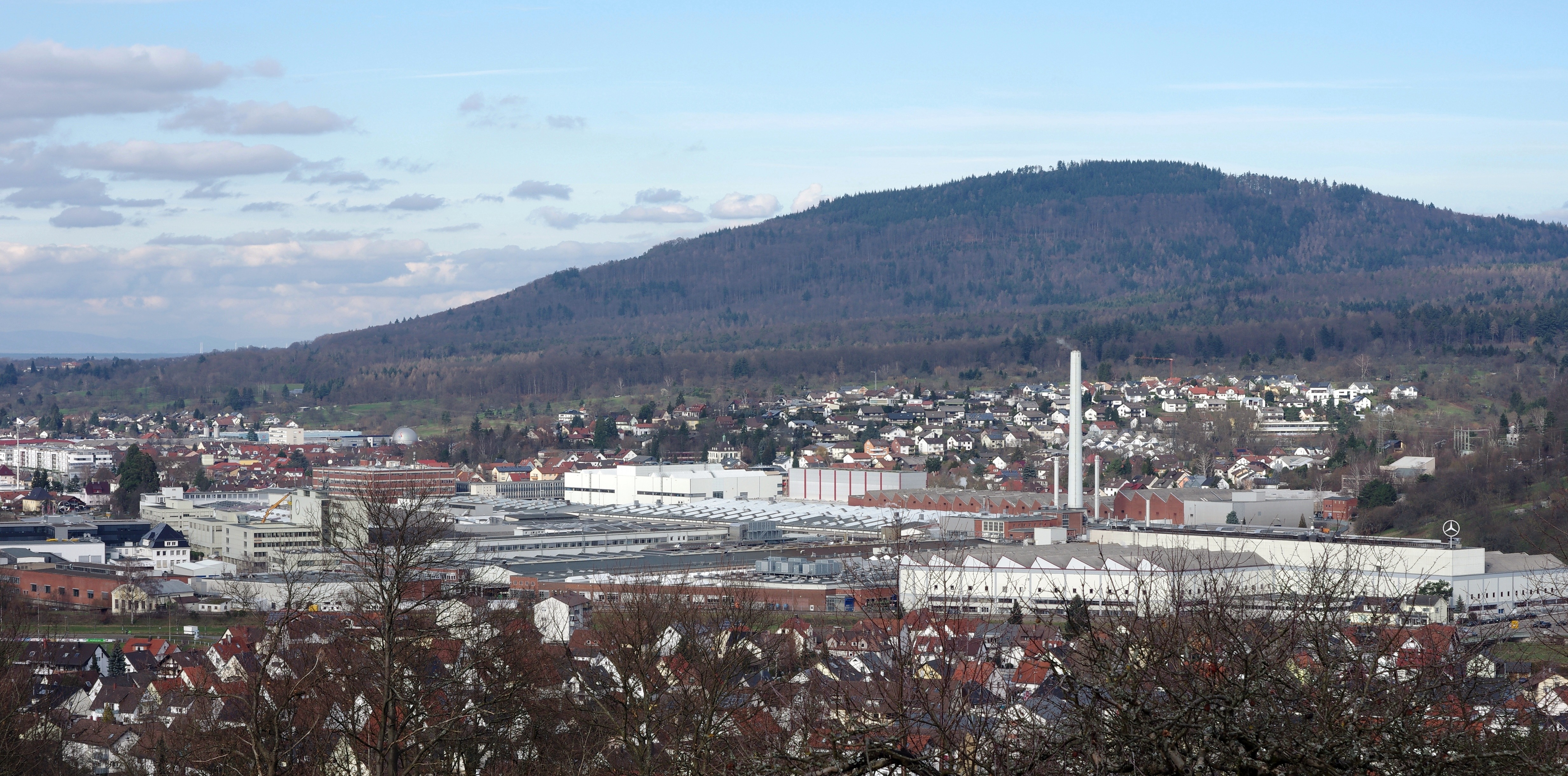 Daimler AG's Gaggenau Mercedes Benz plant, the world's oldest automobile plant continuously used.